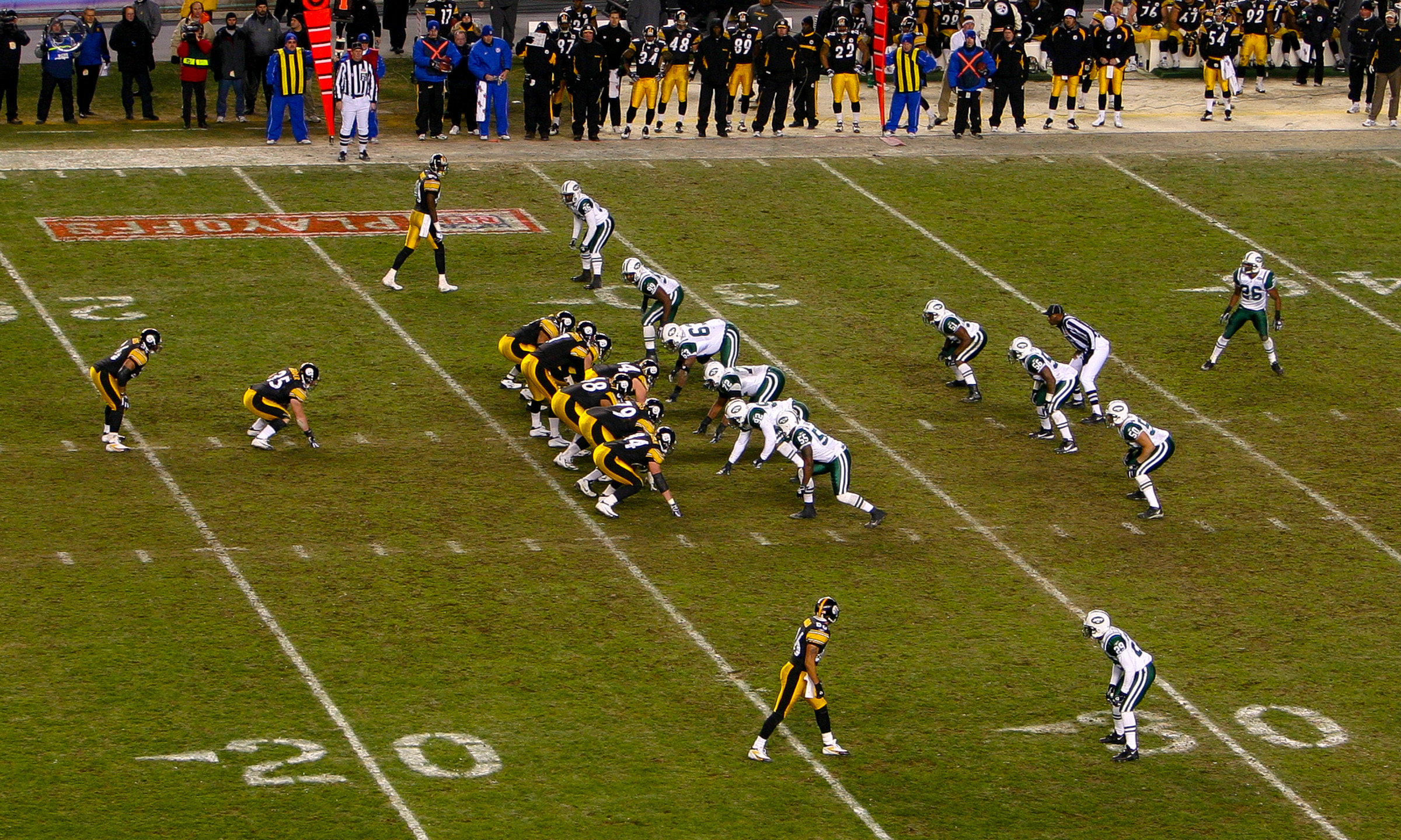 This is an example of an I formation in an NFL postseason playoff game. The Pittsburgh Steelers (black and yellow) are set in the I formation prior to the snap. The New York Jets (white and green) are lined up in a 4-3 defensive formation. The Steelers went on to win the 2005 Superbowl.